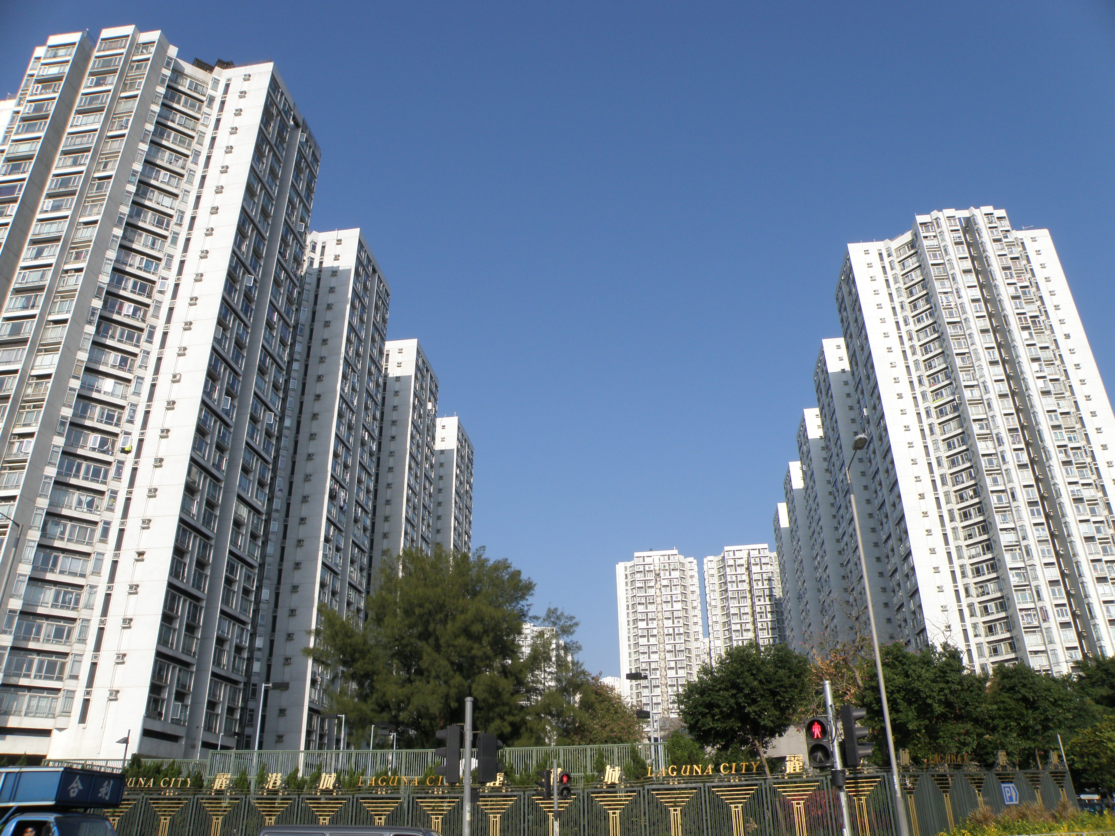 Laguna City in Lam Tin, Hong Kong.